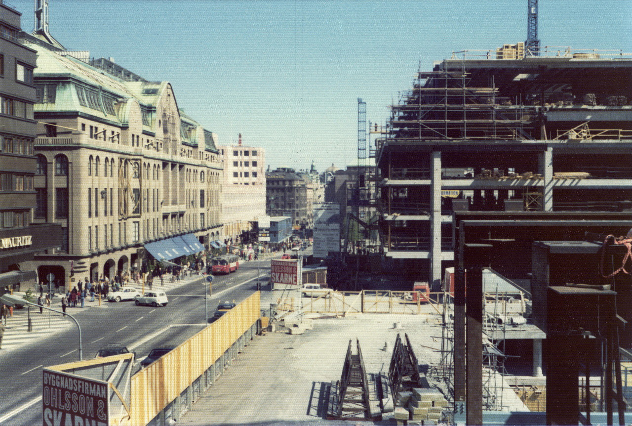 Vy längs Hamngatan österut över korsningen Regeringsgatan och avrivna kvarteret Trollhättan. Till vänster varuhuset NK i kvarteret Hästen och till höger byggnad under uppförande i kvarteret Spektern. 1974-1974FOTOGRAF: Iwarsson, Arne.BILDNUMMER: POSF 1570Stockholms stadsmuseum, Sweden